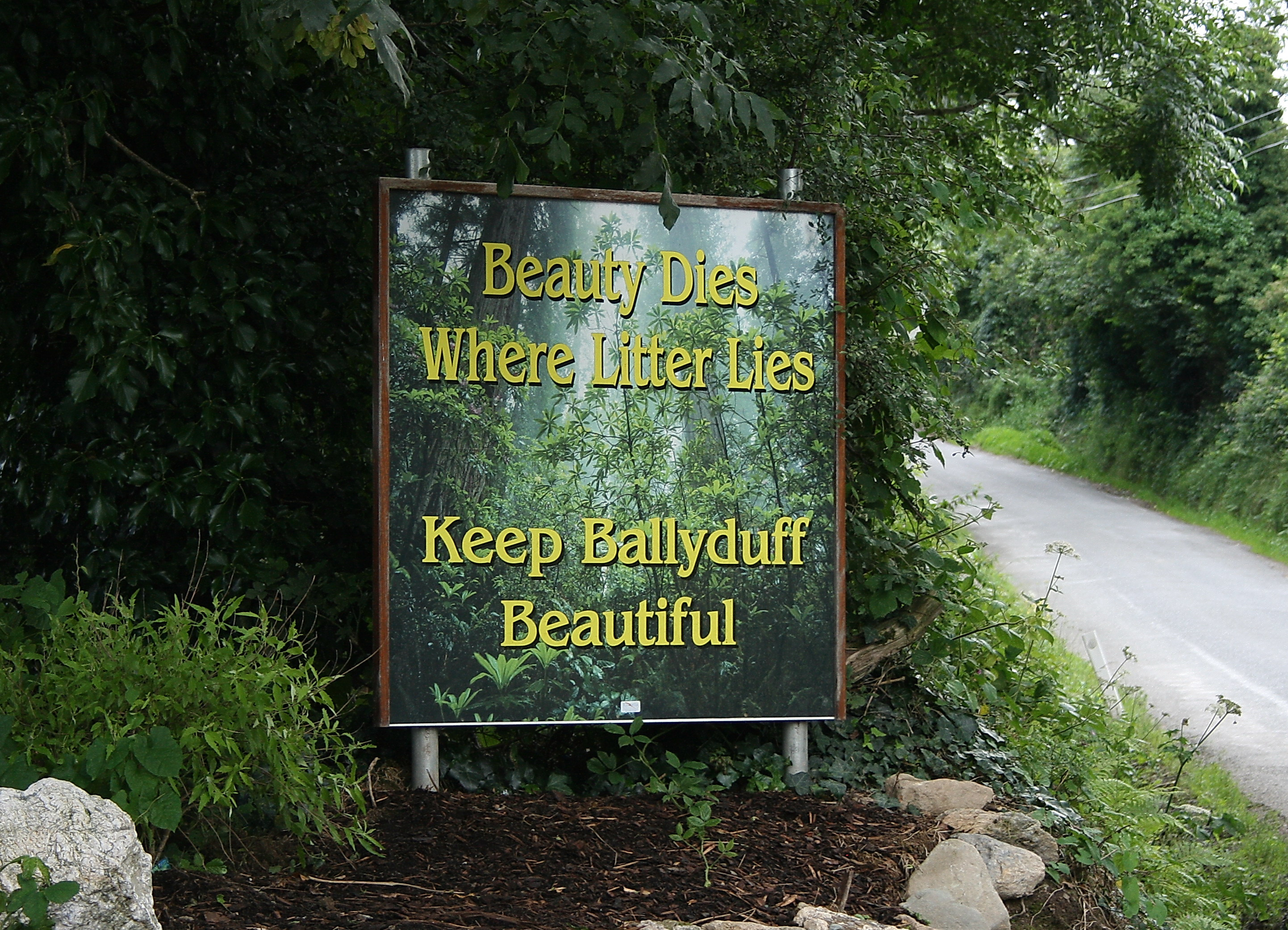 Ballyduff, County Wexford, Ireland